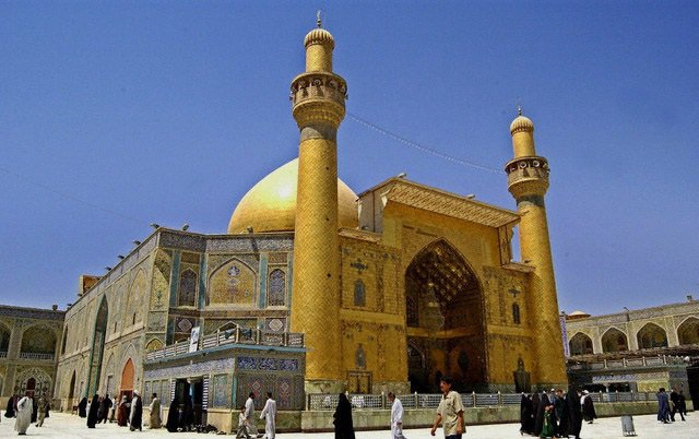 Imam Ali Shrine